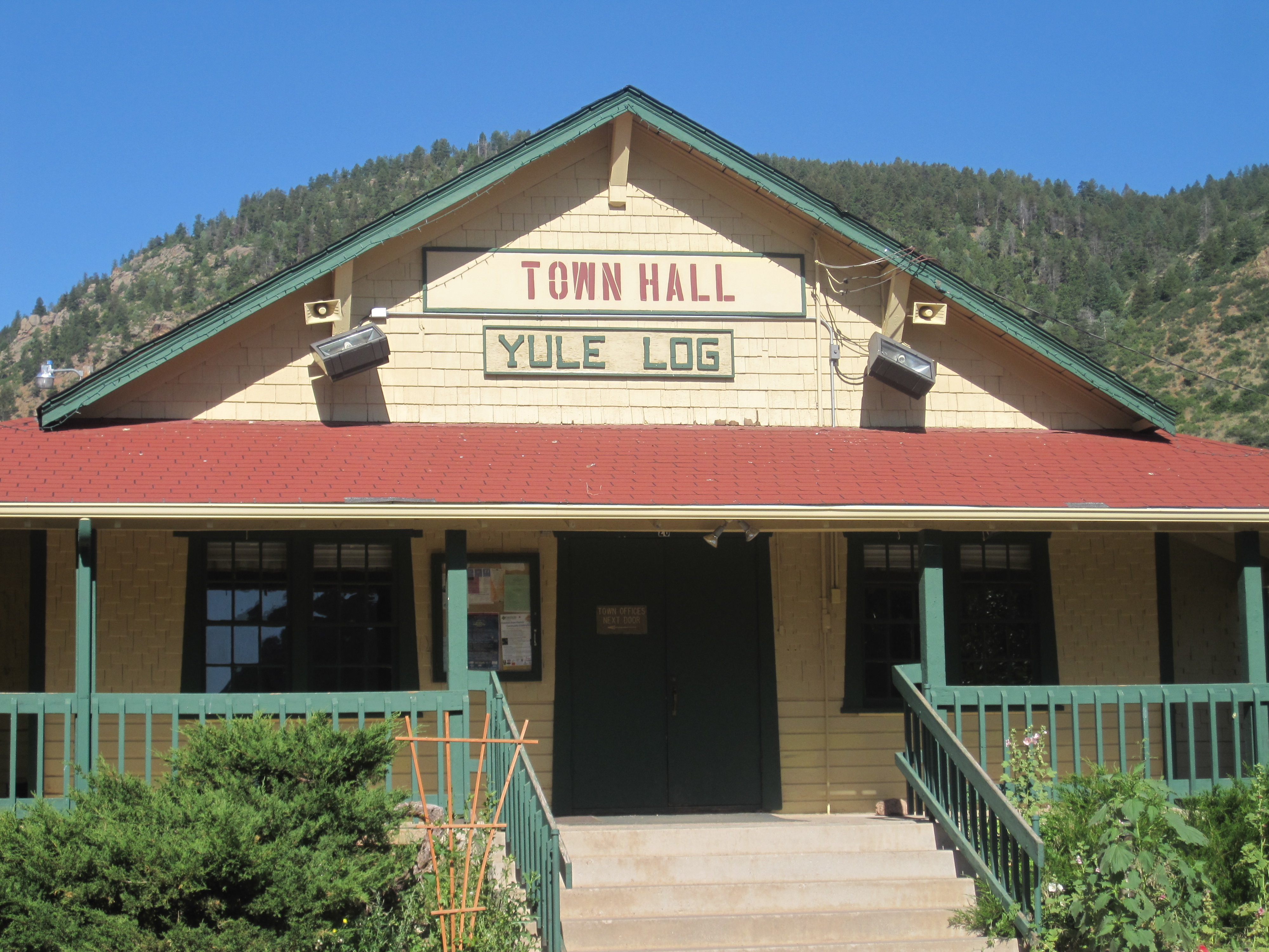 I took photo with Canon camera in Palmer Lake, CO.